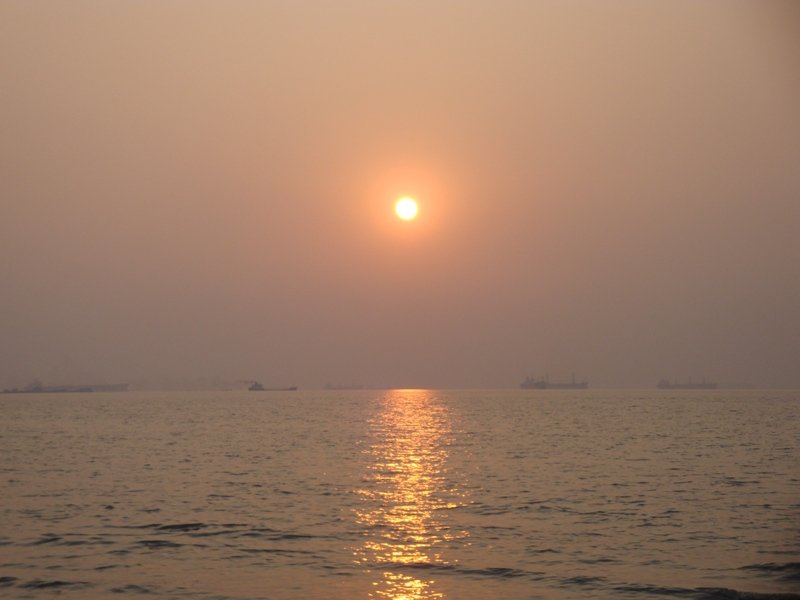 A natural scenario of Patenga Sea Beach, Chittagong.